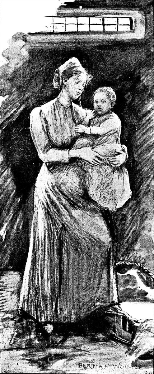 Illustration used in the Windsor Magazine in article on women prisoners